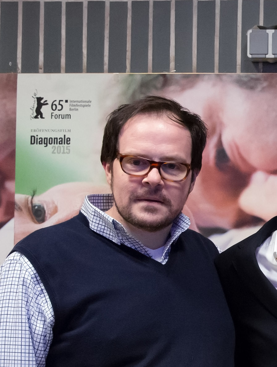 l.t.r.: Thomas Mraz, Nikolai Gemel, Karl Markovics, Ulrike Beimpold and Rainer Wöss at the Viennese premiere of Superwelt at Gartenbaukino in Vienna, Austria.